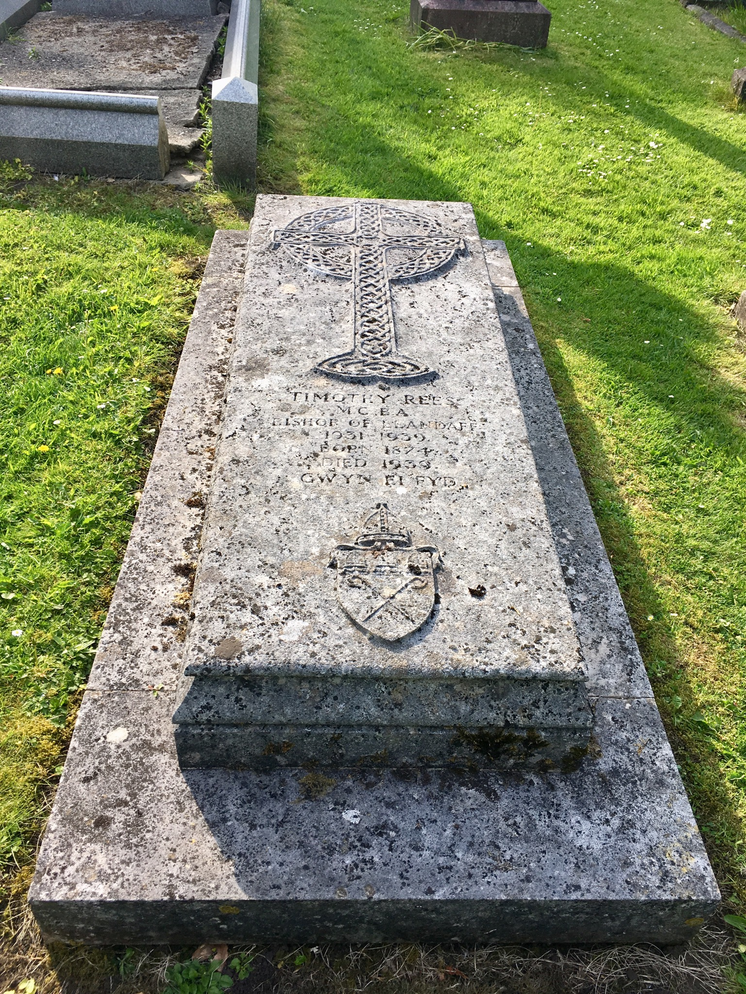 Graves in Llandaff churchyard, May 2020